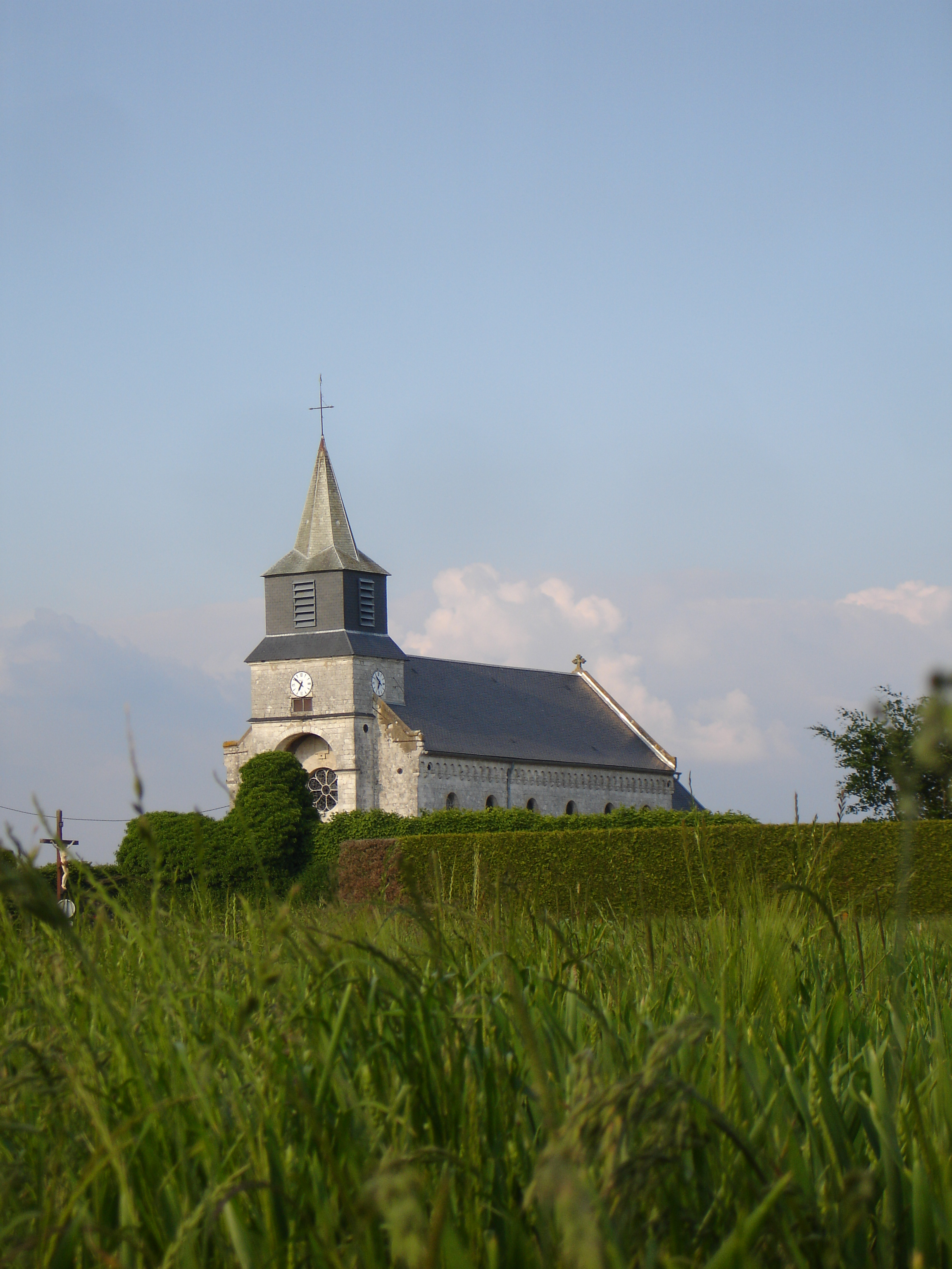 Church of Mouriez